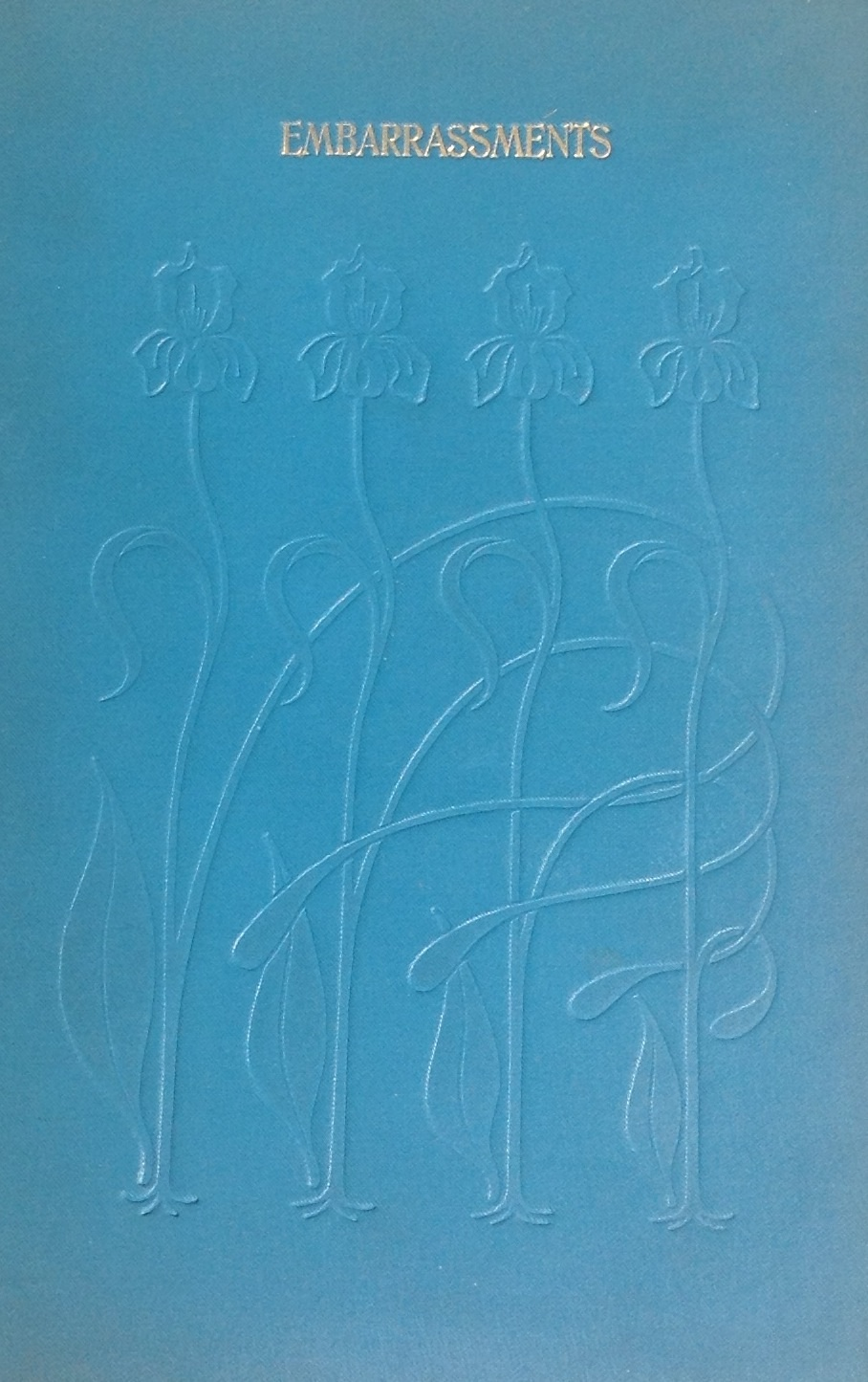 Cover of the 1896 U.K. first edition of Embarrassmenfs by Henry James, published by William Heinemann, London. The volume contains four stories: "The Figure in the Carpet", "Glasses", "The Next Time", and "The Way It Came".